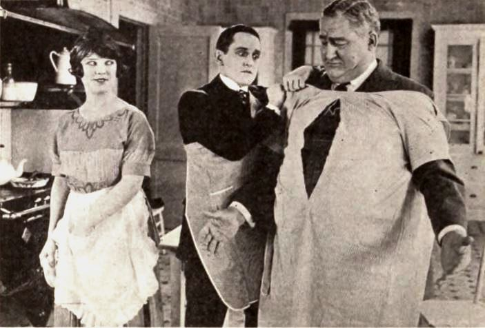 Still from the American comedy film Nothing But Lies (1920) with Justine Johnstone, Taylor Holmes, and Rapley Holmes (1868 – 1928), on page 50 of the May 29, 1920 Exhibitors Herald.